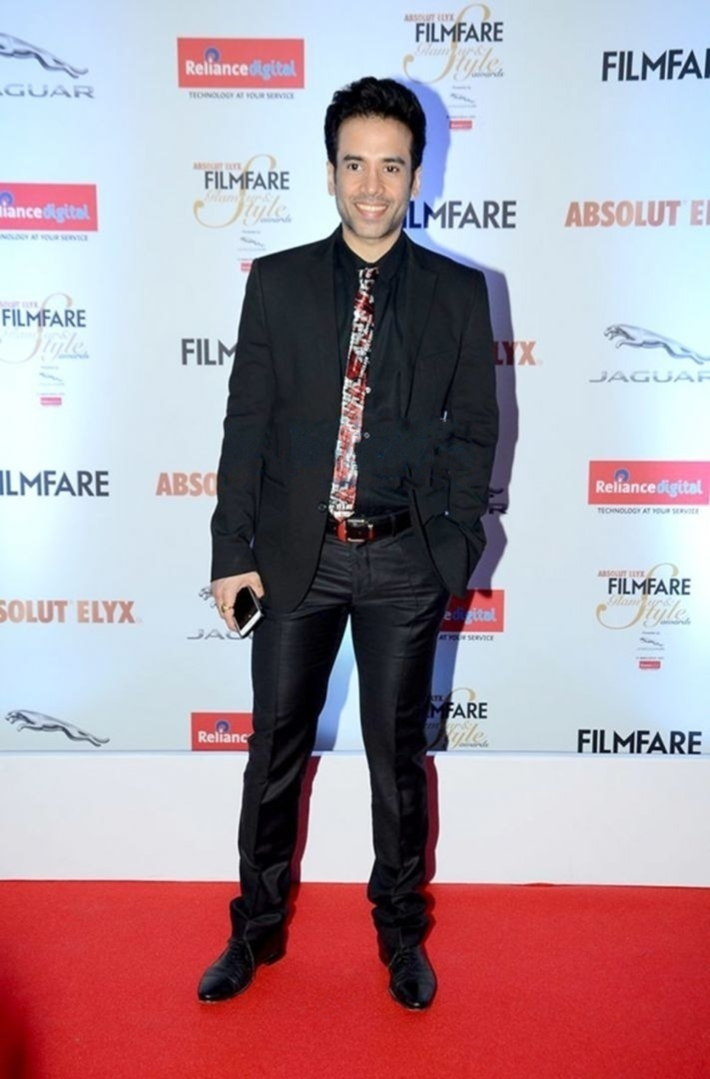 Tussar Kapoor at Filmfare Glamour & Style Awards, 2016